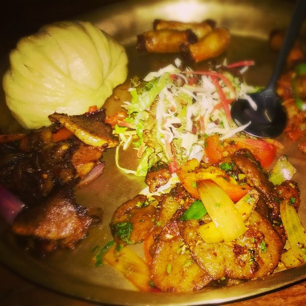 Tibetan food, with goats' throat, other assorted goat parts, and "buff" (which I assume is buffalo)